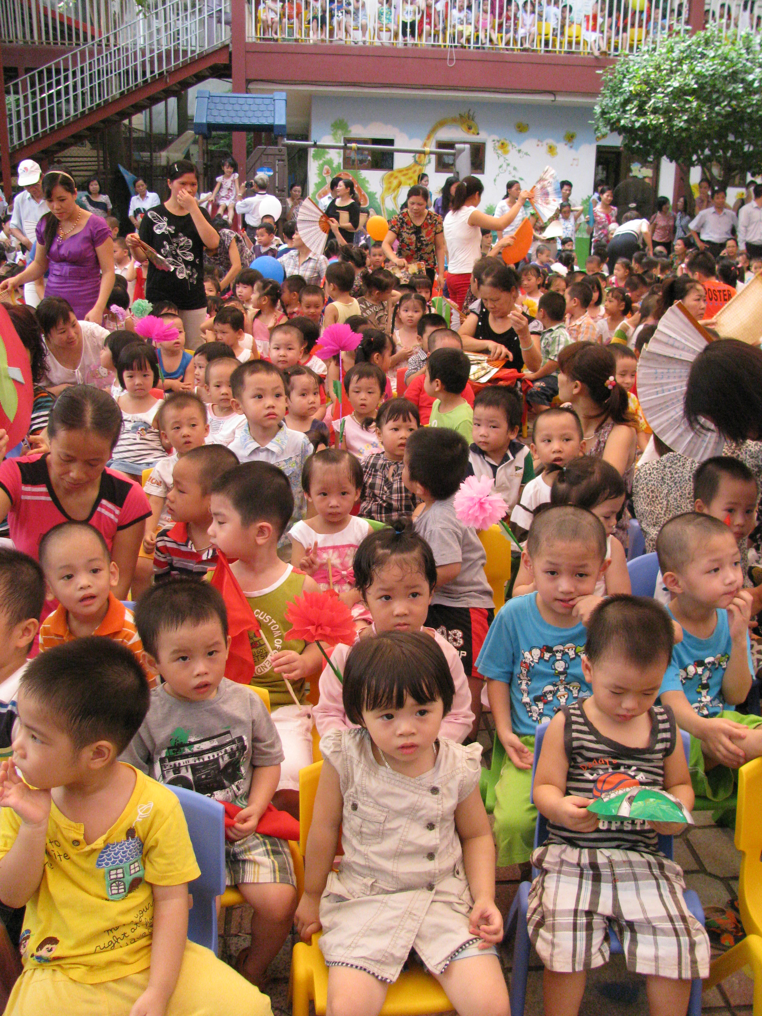 Kindergarten in Vietnam